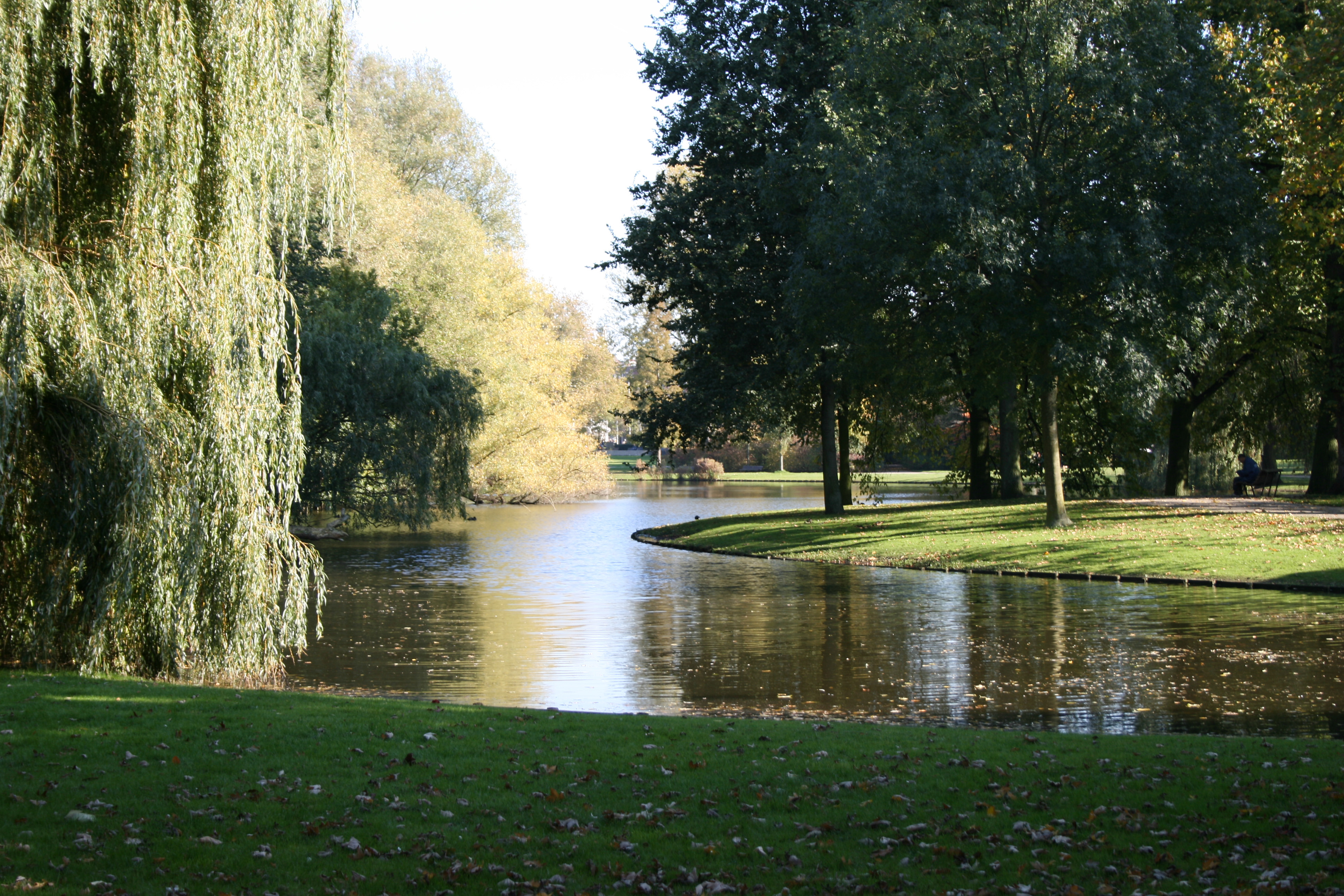 The Oosterpark in Amsterdam is the first large park laid out by the municipality of Amsterdam. The park is located in the Oost (East)/Watergraafsmeer borough and forms a component of the Oosterpark area. The park, an English garden, was designed by Dutch landscape architect Leonard Anthony Springer and was laid out in 1891.